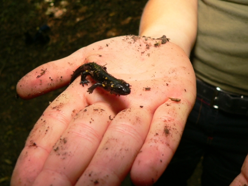 Salamander